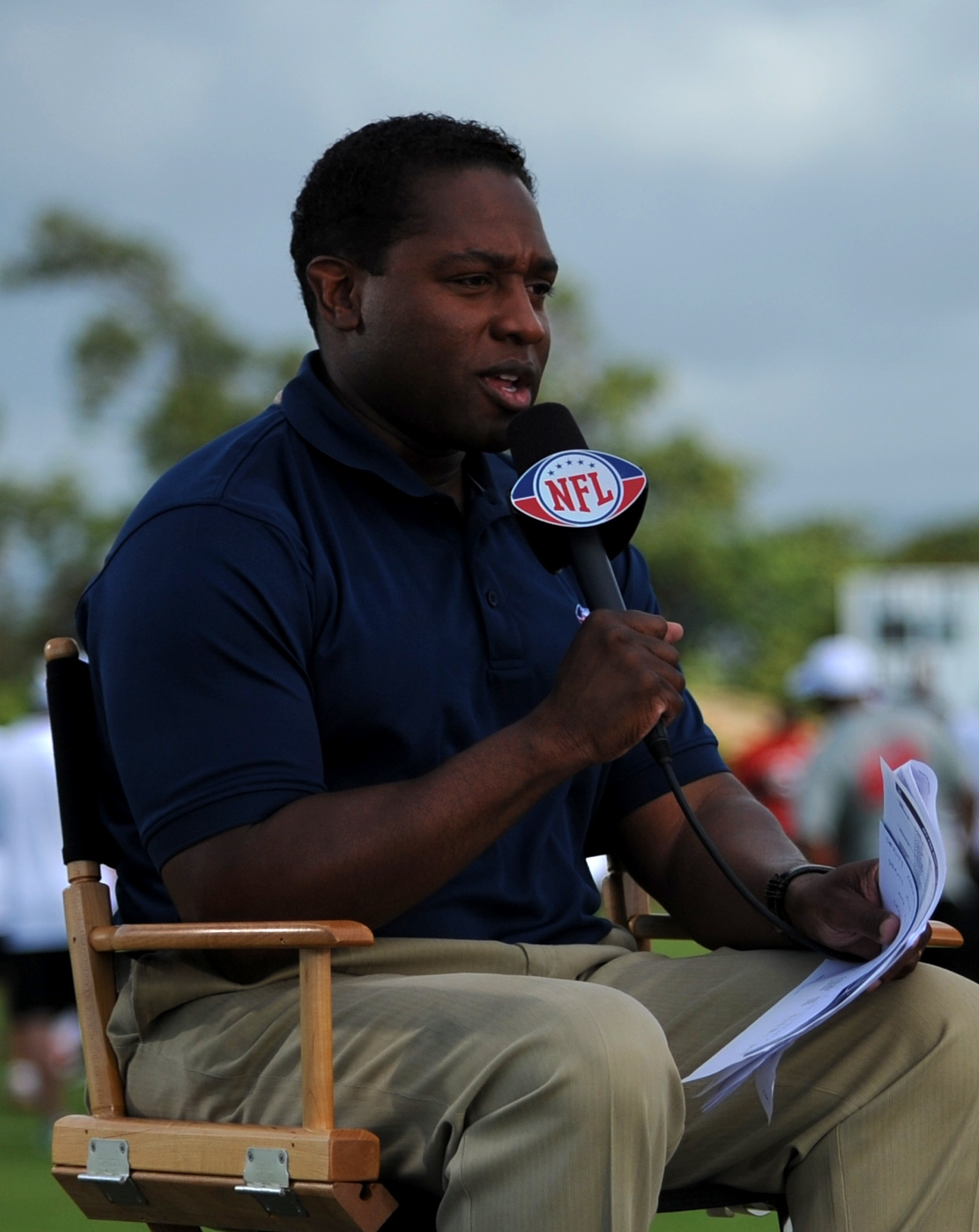 Fran Charles and Tom Waddle, both NFL Network analysts, interview Col. Dann Carlson, the 647th Air Base Group commander and Joint Base Pearl Harbor-Hickam deputy commander, during the Pro Bowl practice sessions at Earhart Field, Hawaii, Jan. 26, 2012. (U.S. Air Force photo/Staff Sgt. Mike Meares